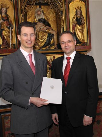 The head of the government of the principality of Liechtenstein, Klaus Tschütscher, is getting the government contract from prince-regent Alois.